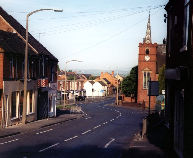 Sunday Morning. Village of Gornal Wood, Centre. Taken from Zoar Street.